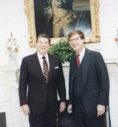 Thomas H. Anderson, Jr., right with Ronald Reagan in Oval Office